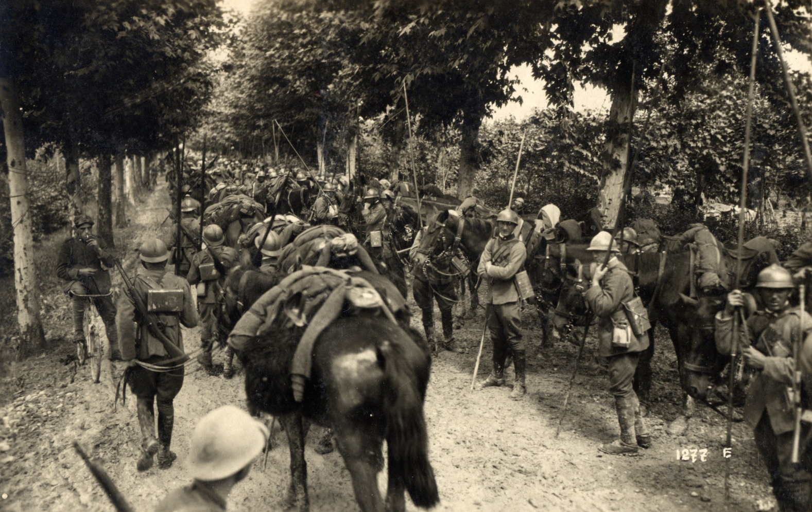 World War 1 - Italian Army: After the Italian retreat following the Battle of Caporetto, Lancers await their orders near Fossalta at the new frontline along the Piave River